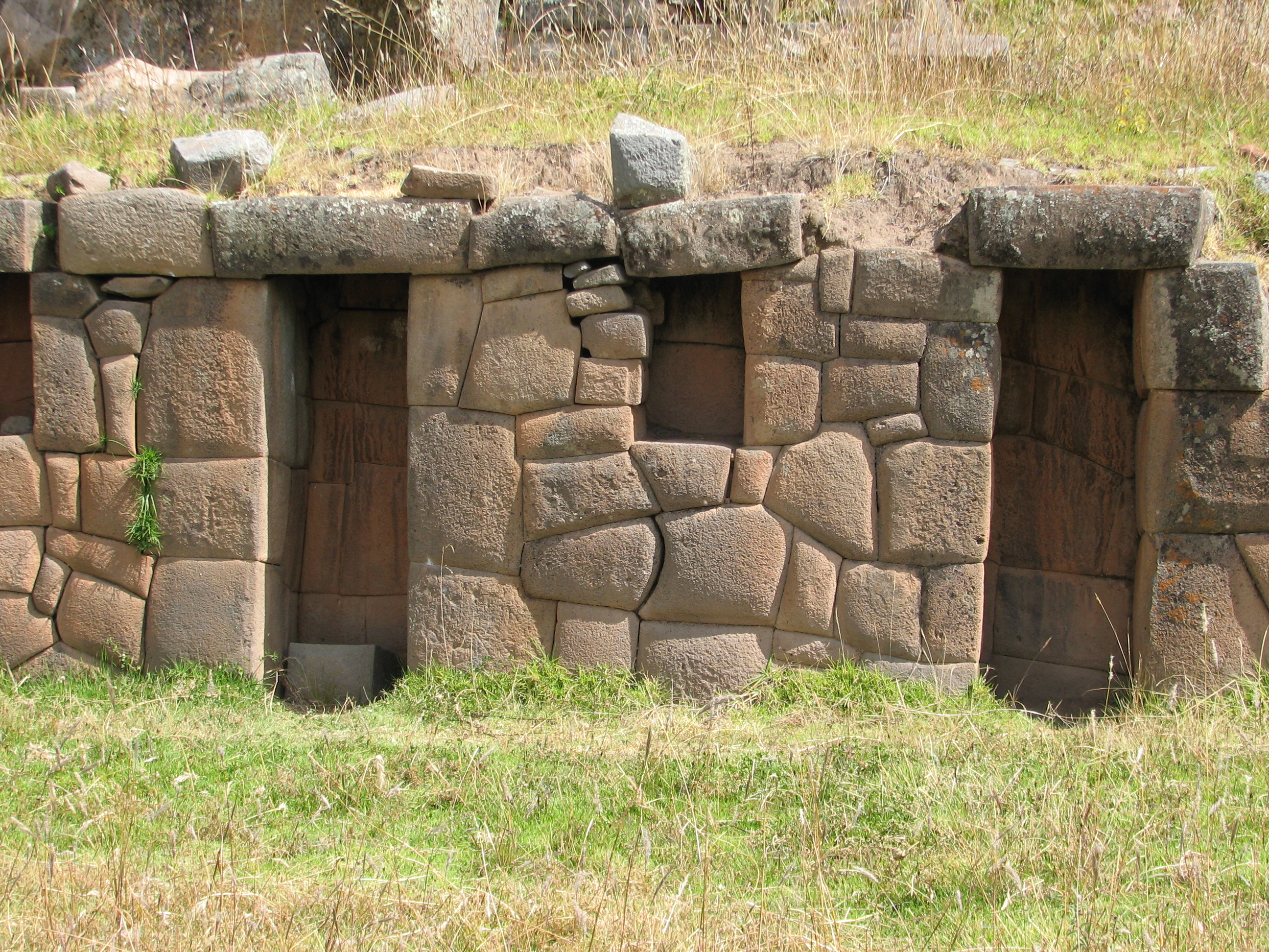 Pumacocha Archaeological site (wall)